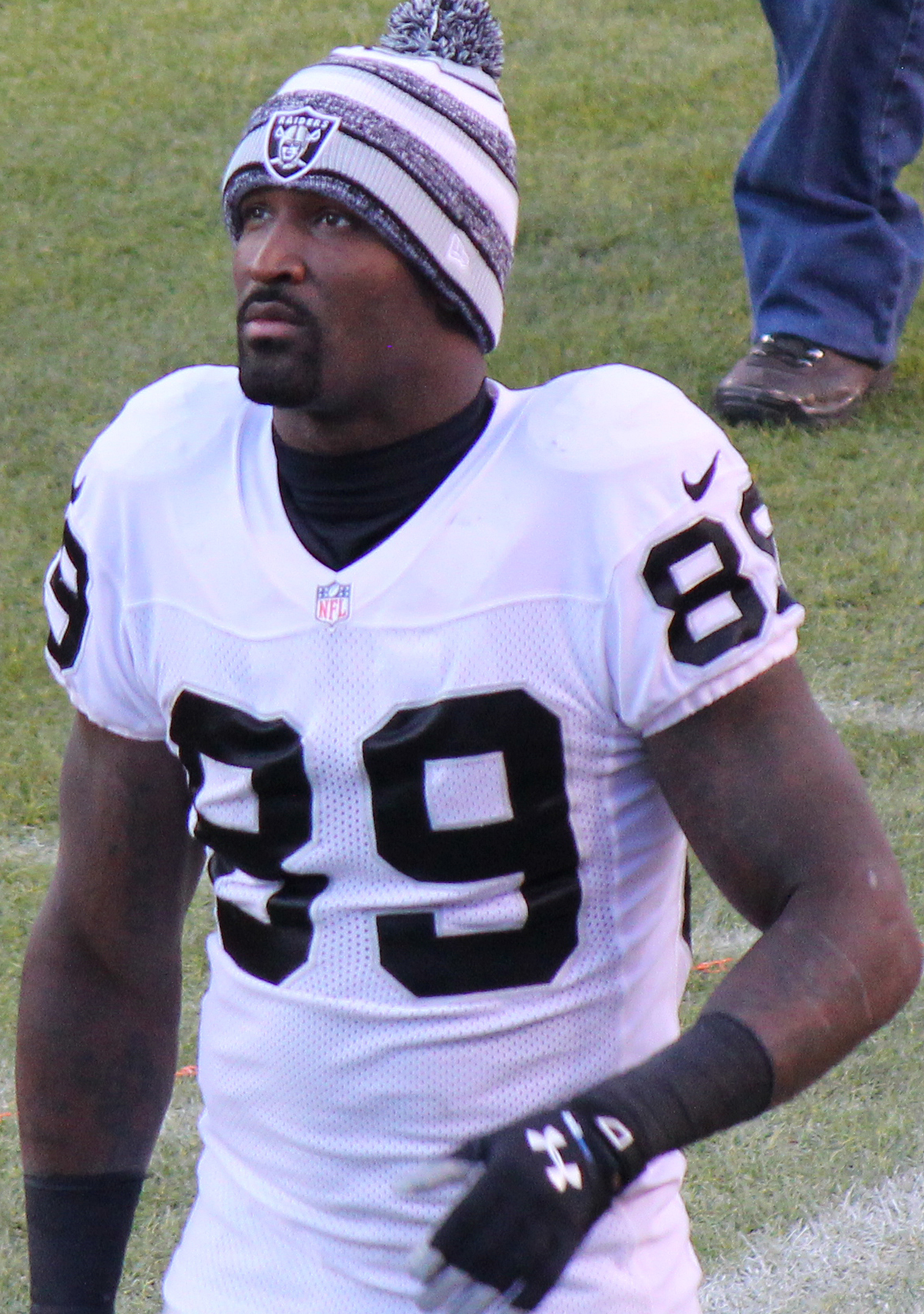 James Jones, a player on the National Football League.